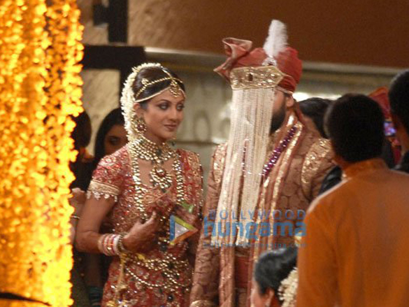 Raj shilpa wedding